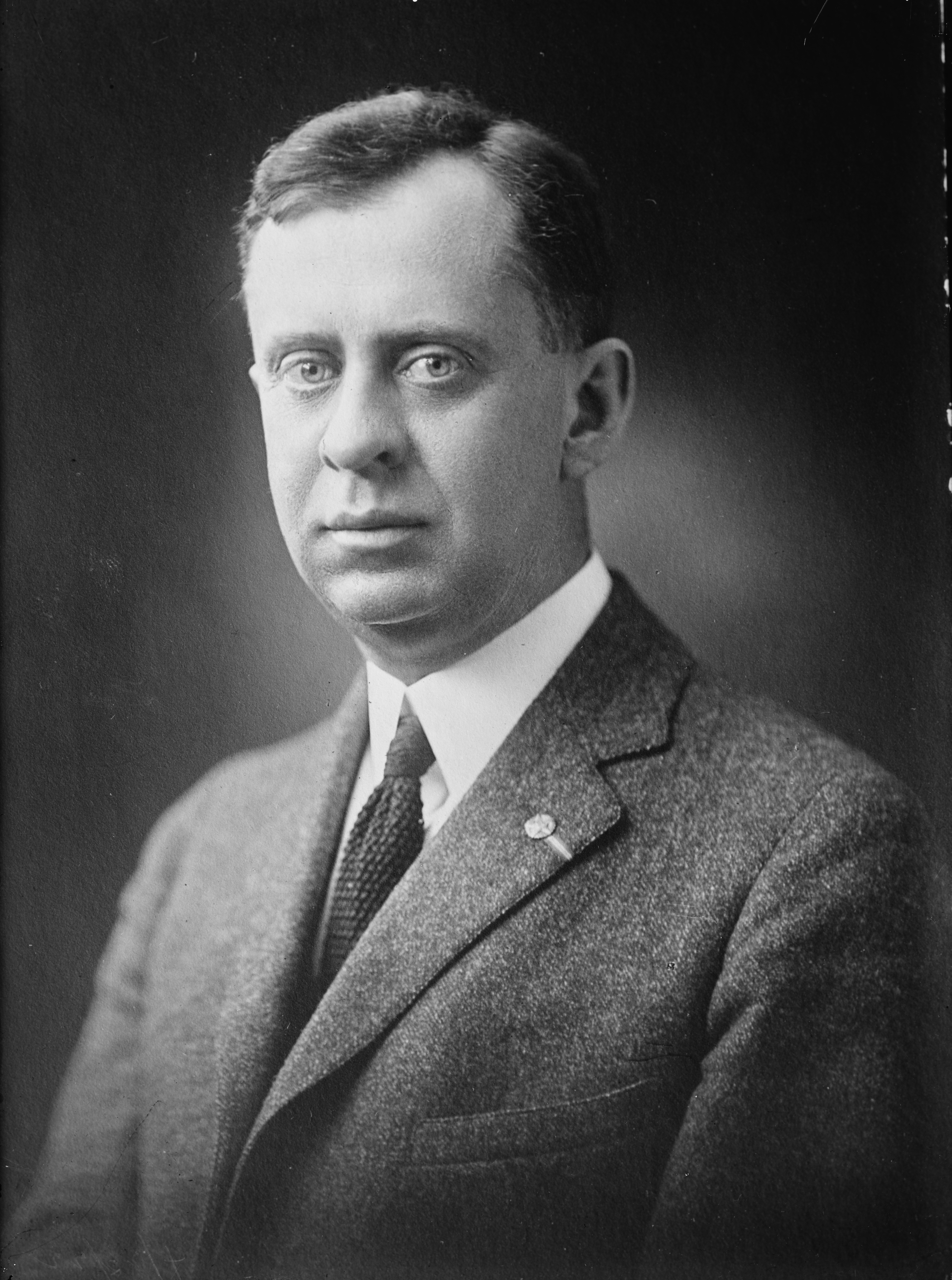 Redfield Proctor, Jr. (1879–1957)